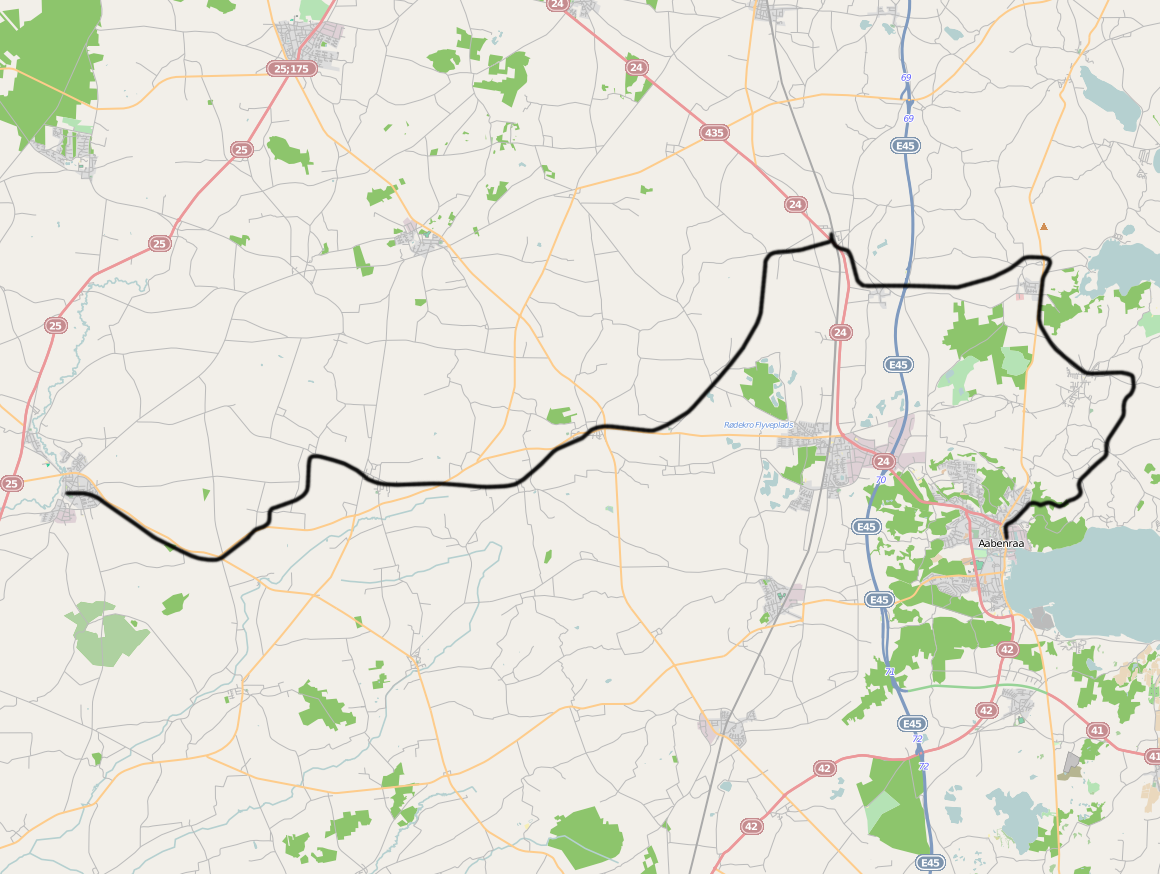 Railway line Åbnerå - Løgumkloster